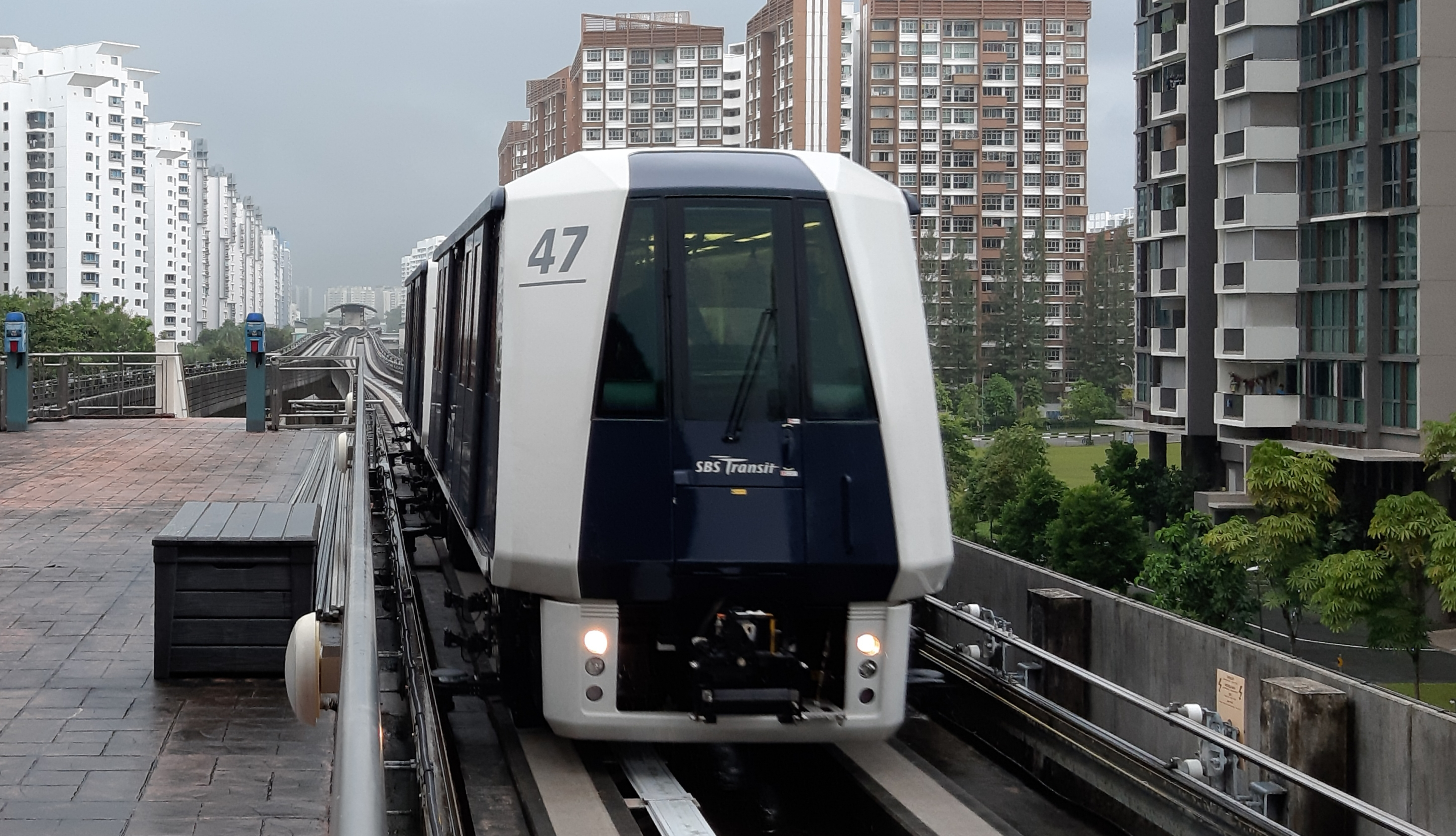 Mitsubishi Crystal Mover C810A trainset 47 on the Punggol LRT Line on the clockwise service approaching Kadaloor LRT Station.